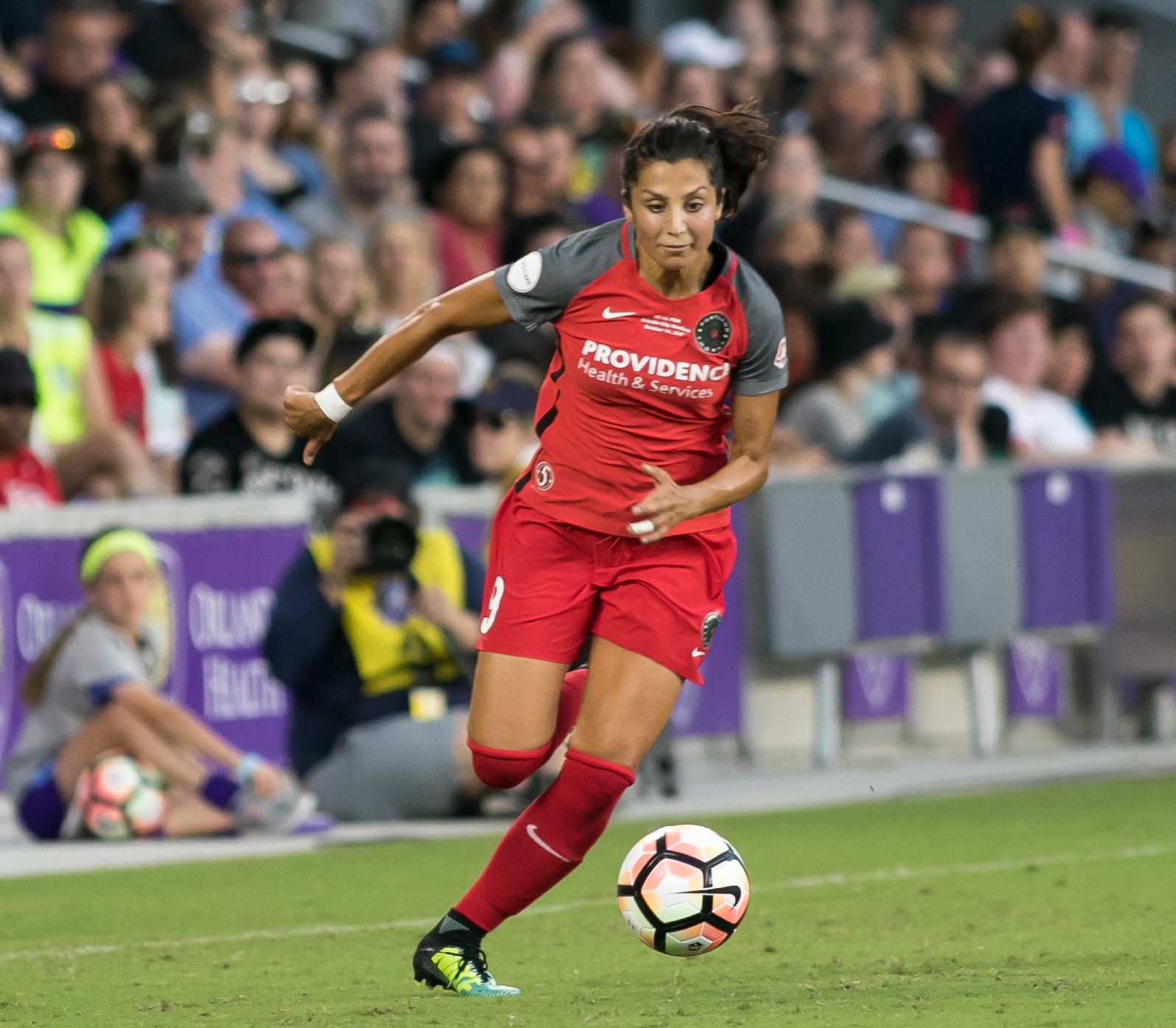 Nadia Nadim playing for the Portland Thorns FC in 2017